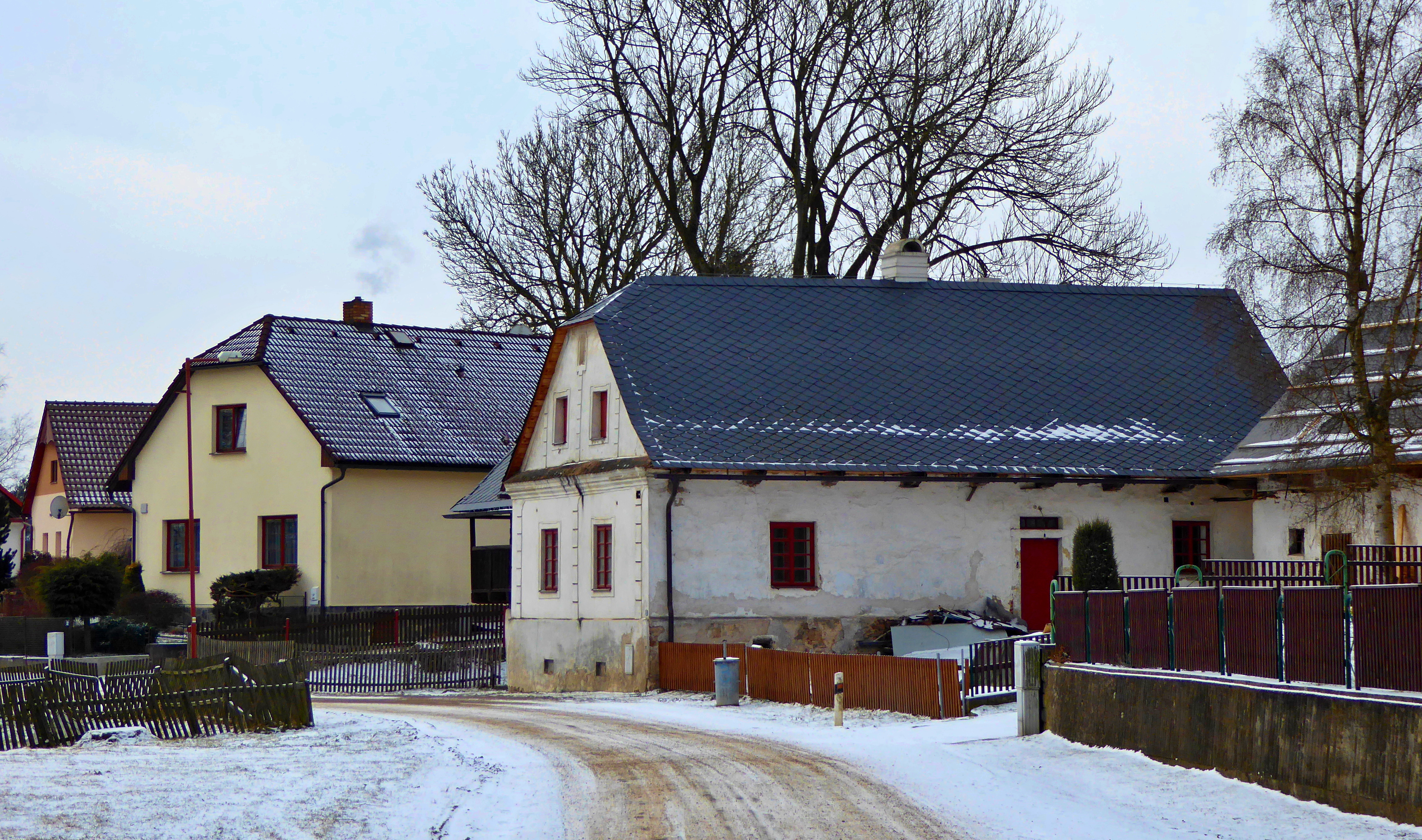 The habitation part of she a former forge (in the center of the photo, with a white façade), a building from the years 1830 - 1840 (former forge from half of the 18th century), the village of "Vysočina", part "Možděnice". Photo location: Czechia, Pardubice Region, municipality Vysočina, the hamlet of "Možděnice", "Stružinecká" knoll hill.